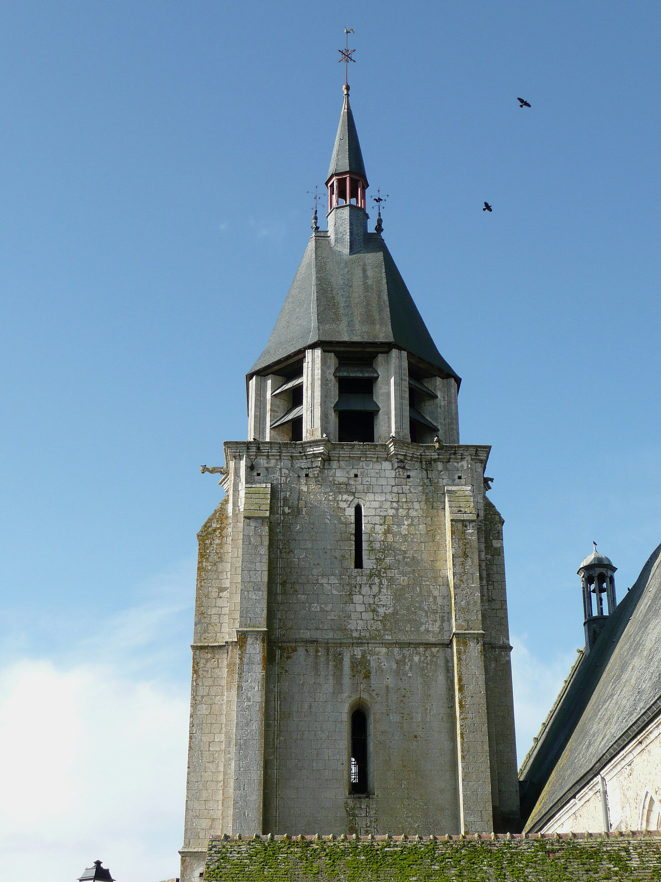 Bell-tower of the Saint-Jacques church in Illiers-Combray